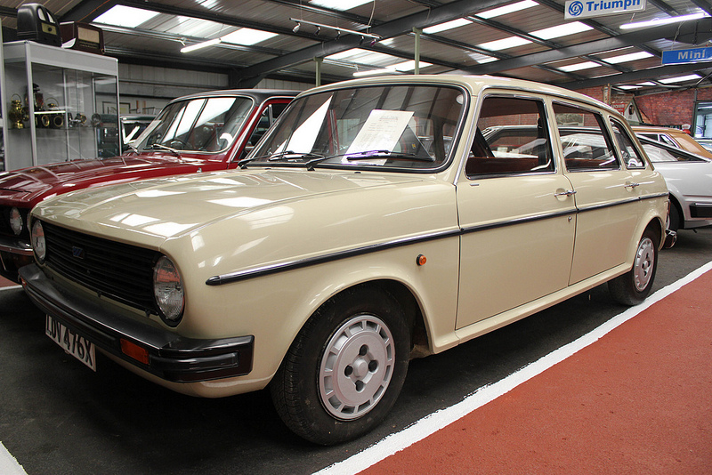 Very last Austin Maxi built August 1981Cowley Oxford UK, Champagne Beige Series 2 L Owned by British Motor Industry Heritage Trust, Gaydon Warwickshire UK. Currently on loan to the Atwell-Wilson Motor Museum, Caine Wiltshire UK as of 2014